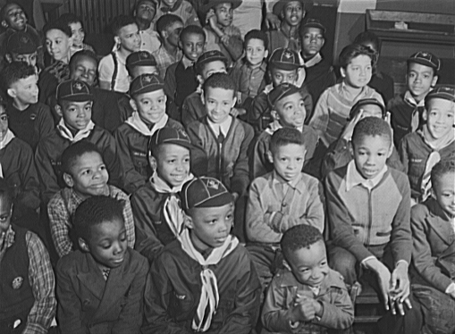 Chicago, Illinois. Ida B. Wells Housing Project. A meeting of the Cub Scouts in the community center